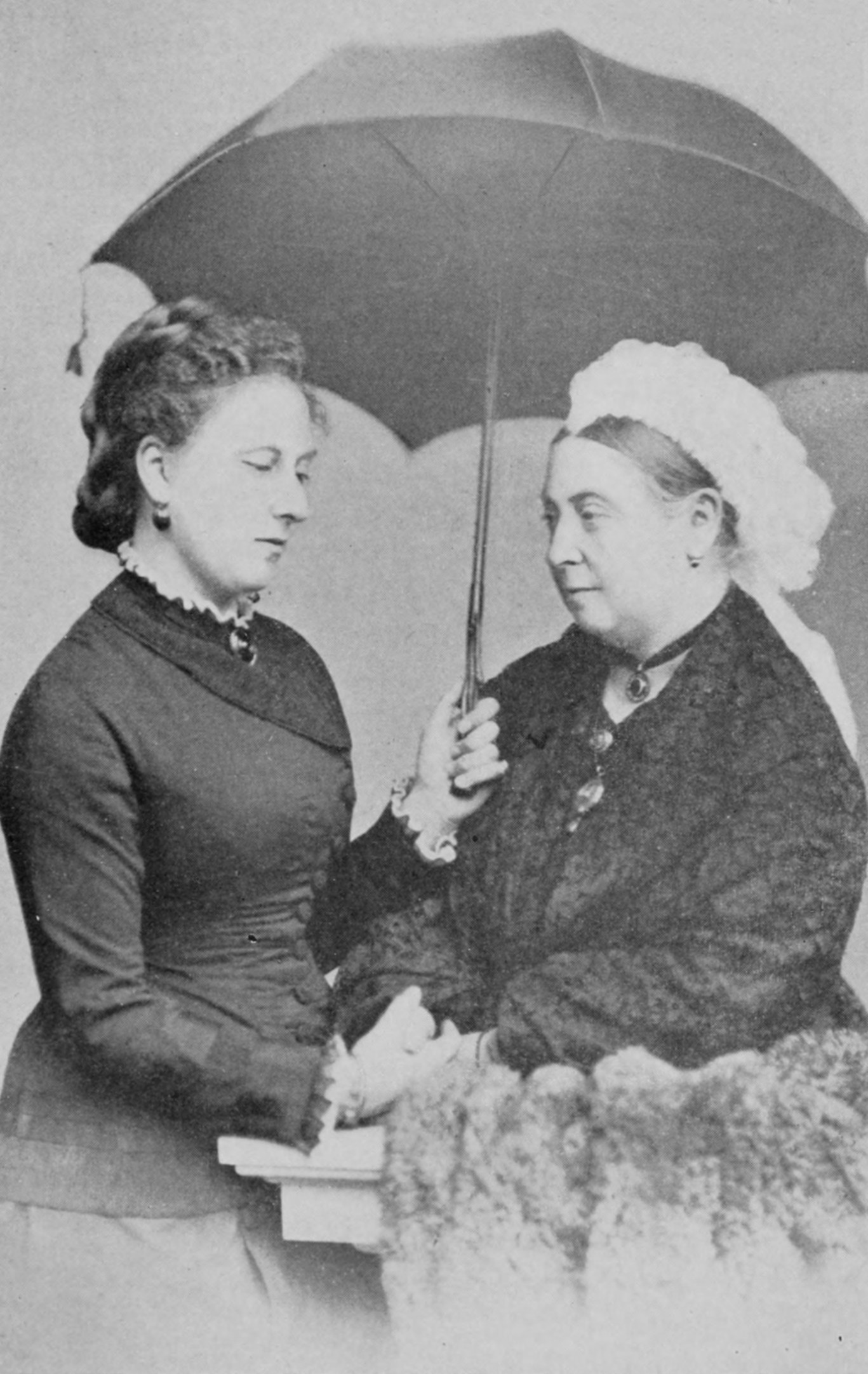 Queen Victoria and Princess Beatrice.